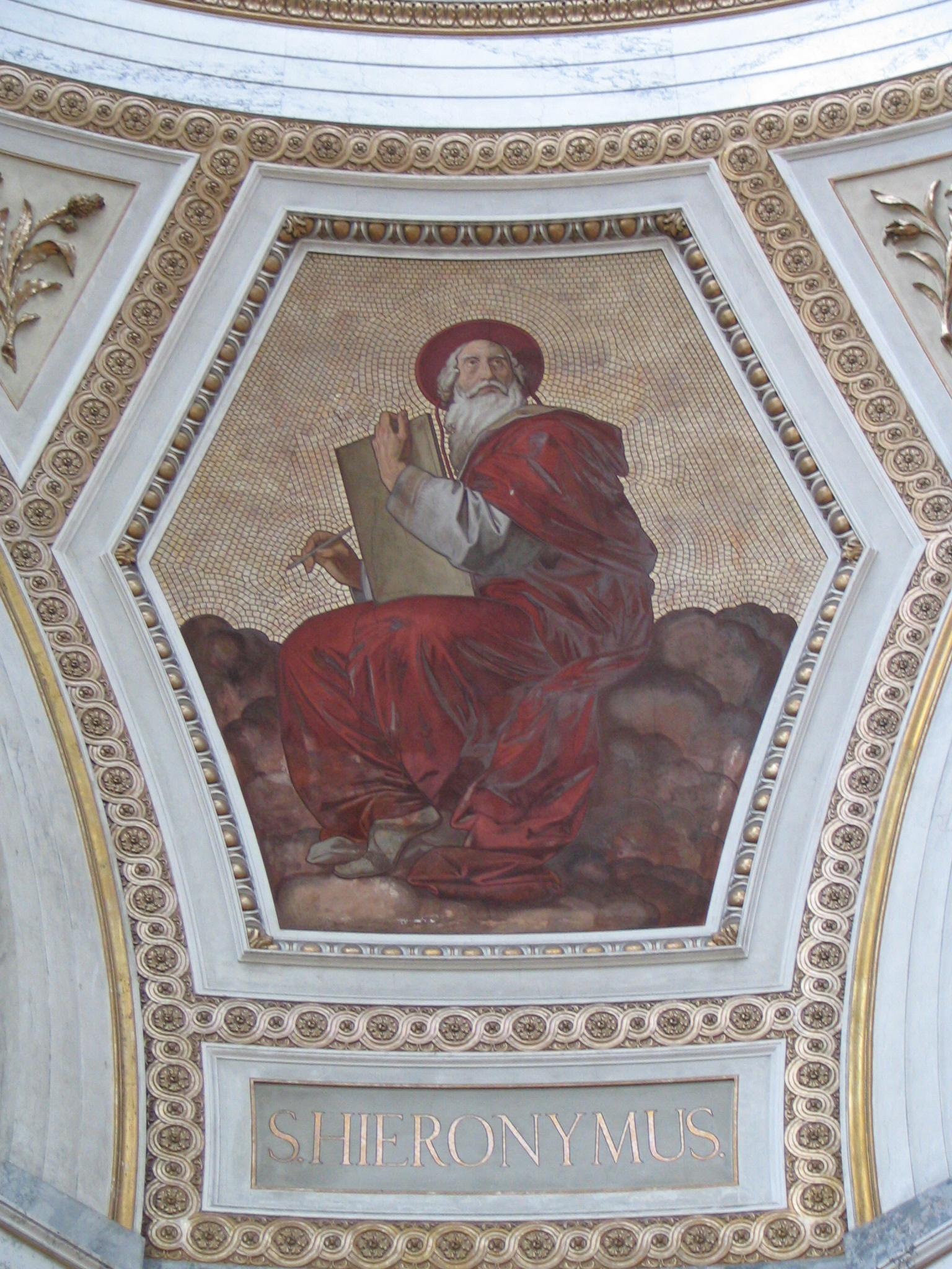 St Hieronimus in Esztergom Cathedral